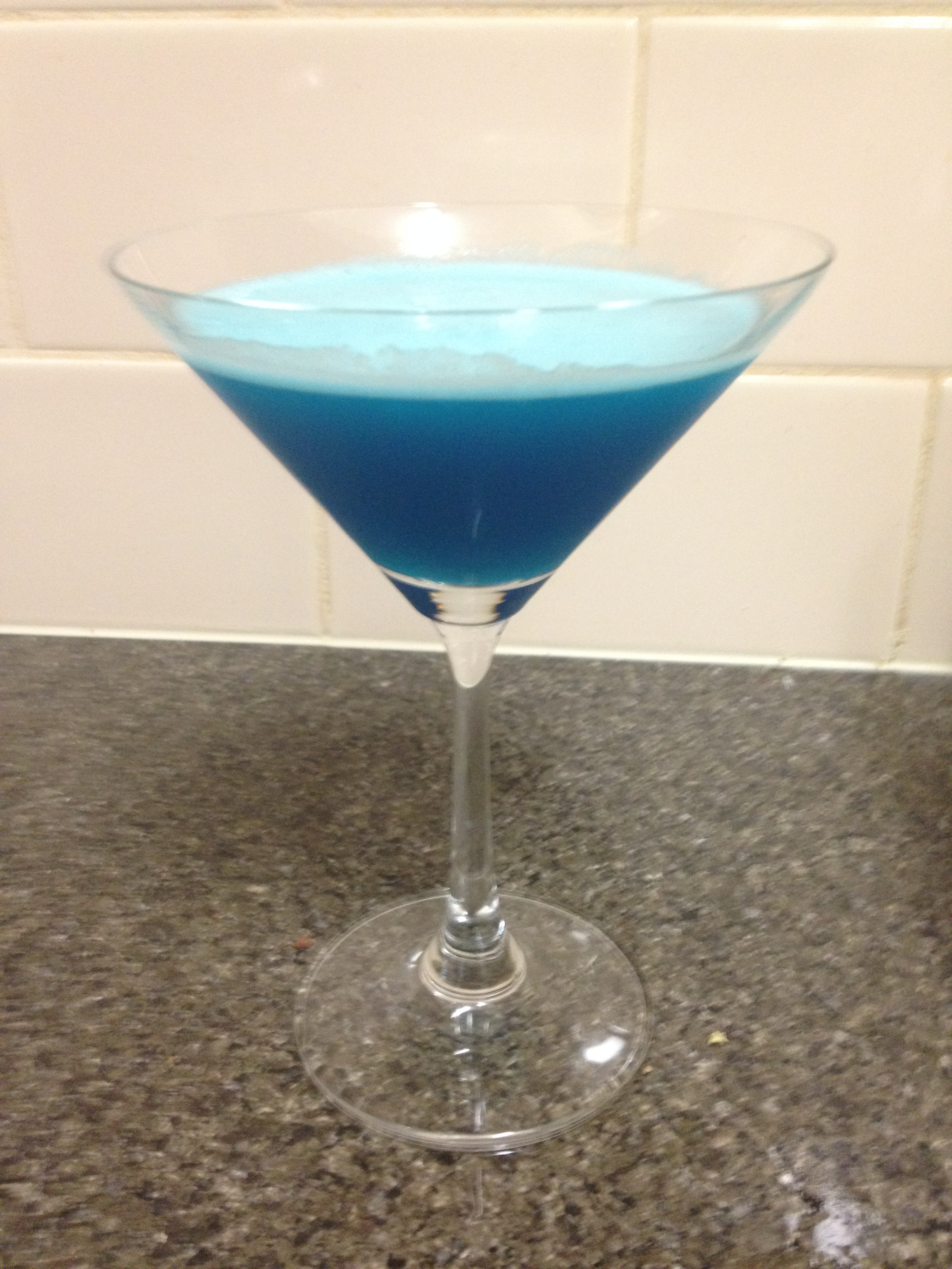 A cocktail mixing the tropical flavors of Malibu and pineapple with the citrus flavor and aesthetically impressive color of Blue Curacao.